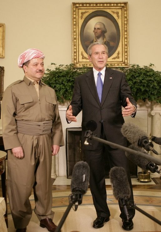 President George W. Bush talks to reporters as he welcomes Massoud Barzani, the President of the Kurdistan regional government of Iraq, to the Oval Office at the White House, Tuesday, Oct. 25, 2005.